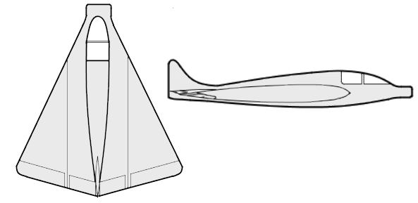 Simple 2 way schematics of the fourth Lippisch Li P.12 model